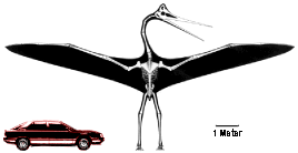 Size comparison of Quetzalcoatlus northropi, a giant pterosaur form the late Cretaceous of Texas and the world's largest flyer ever live.